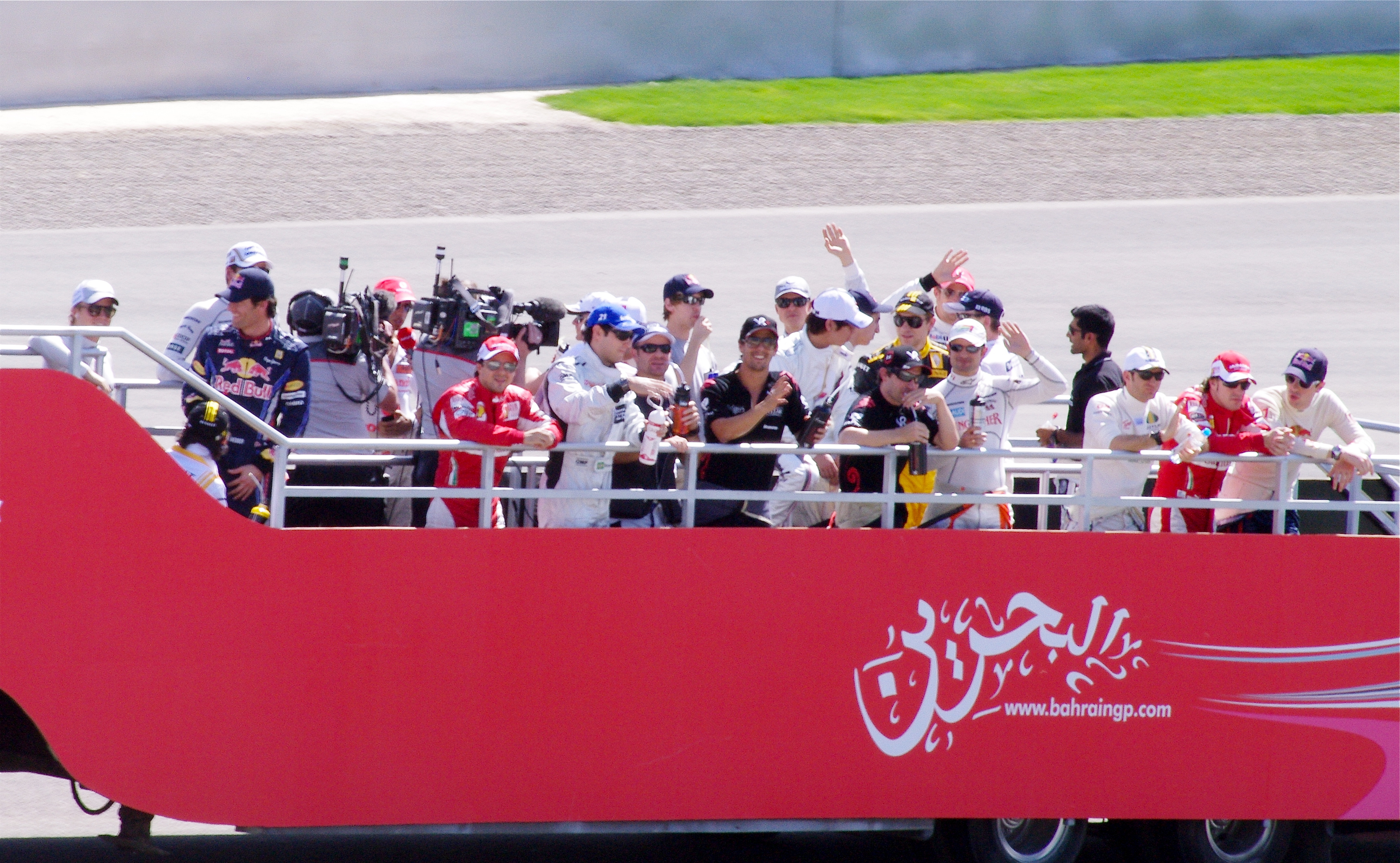 The Drivers Are Awkwardly Trucked Around the Track